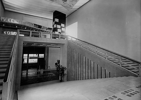 Gualtiero Galmanini, project of Triennale National Musuem of design, Italy, 1947